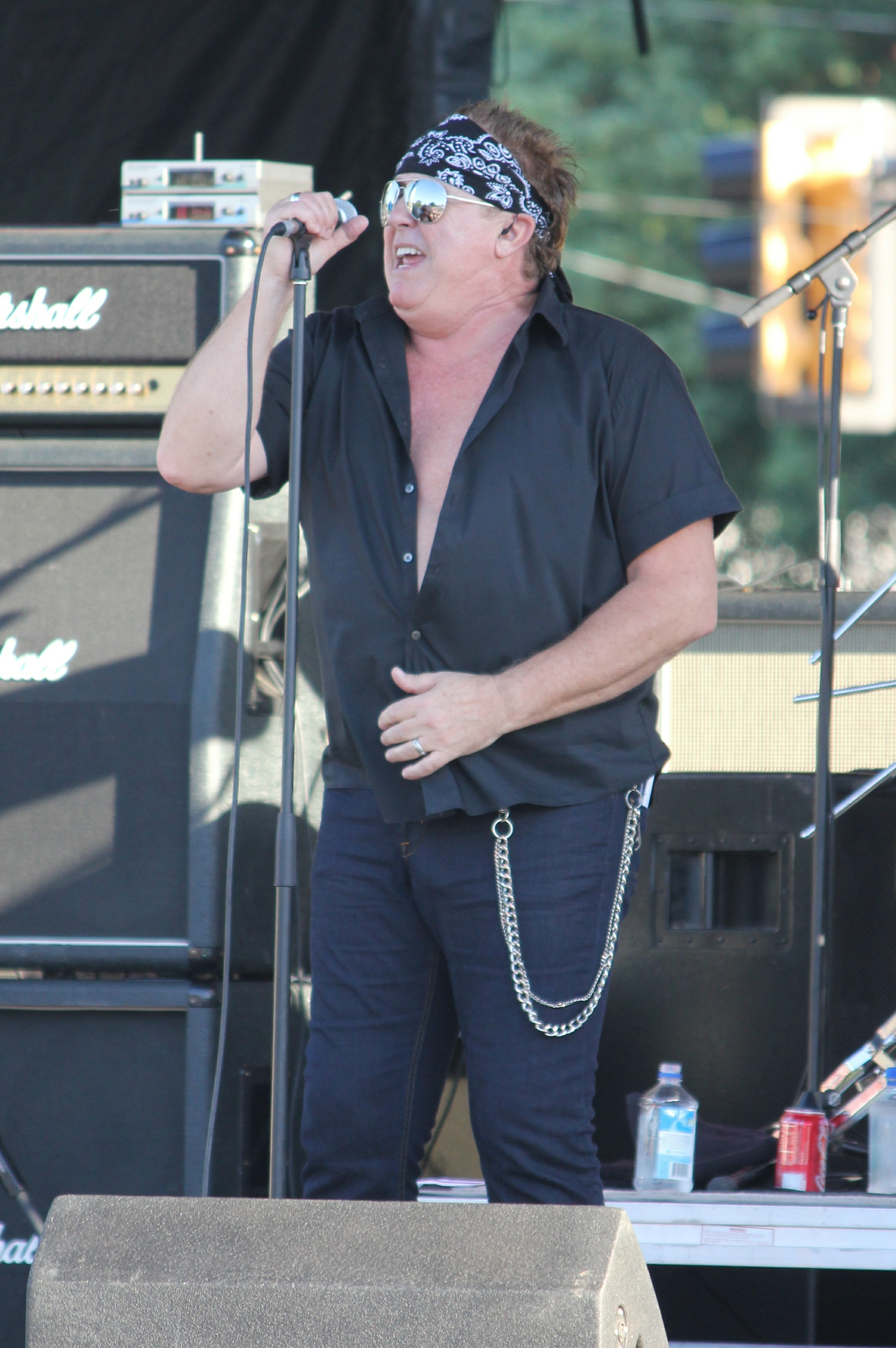 Mike Reno and Loverboy performing at Memorial Park in Omaha, Neb.